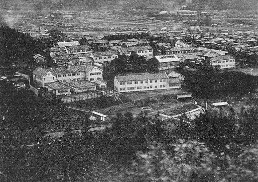 Nagasaki Medical College buildings